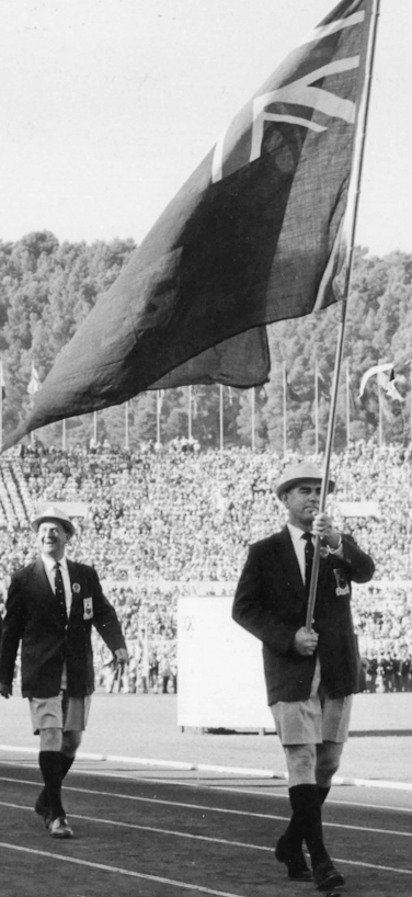 Les Mills (right) at the Opening Ceremony of the Rome Olympics